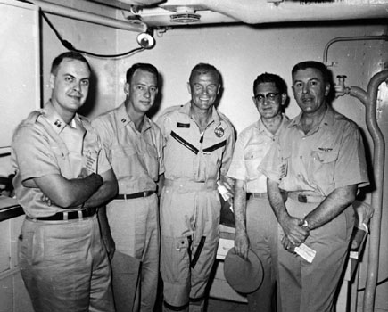 Lt. Colonel John Glenn, USMC, (center) with medical debriefing team aboard USS Randolph, 20 February 1962. The medical debriefing team was led by Cmdr. Seldon C. Dunn, USN MC, far right